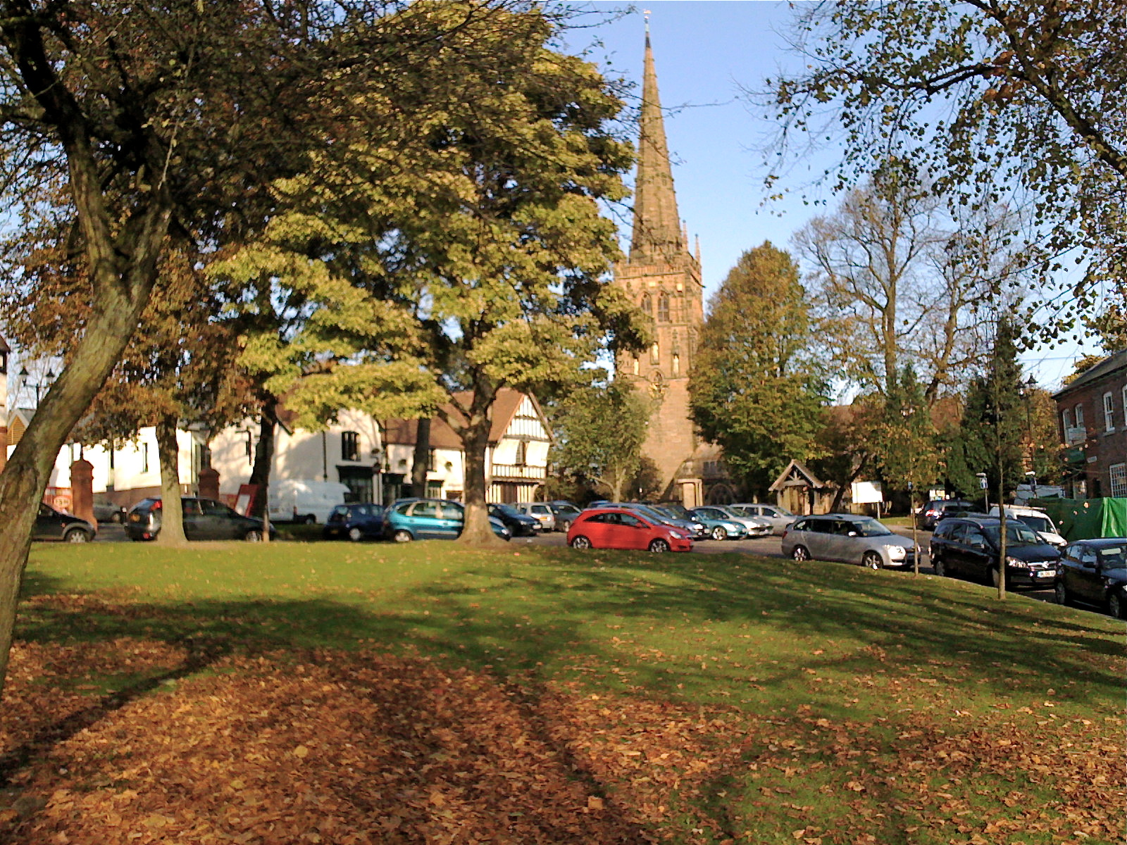 Kings Norton Green and St Nicolas Church amongst the Autumnal leaves